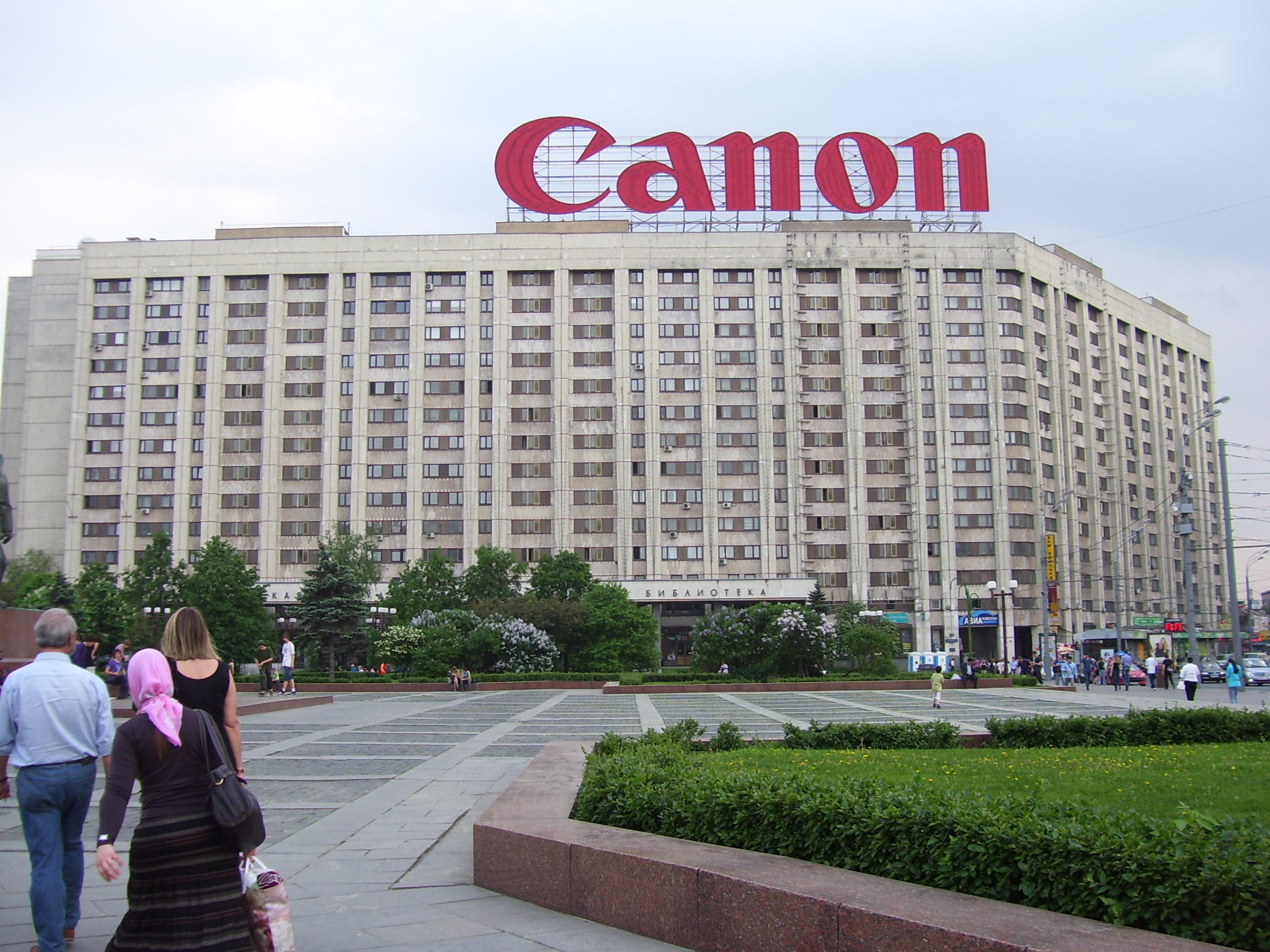 Kaluzhskaya Square 1 The Russian state children's library Burundi Embassy in Moscow, Russian Federation